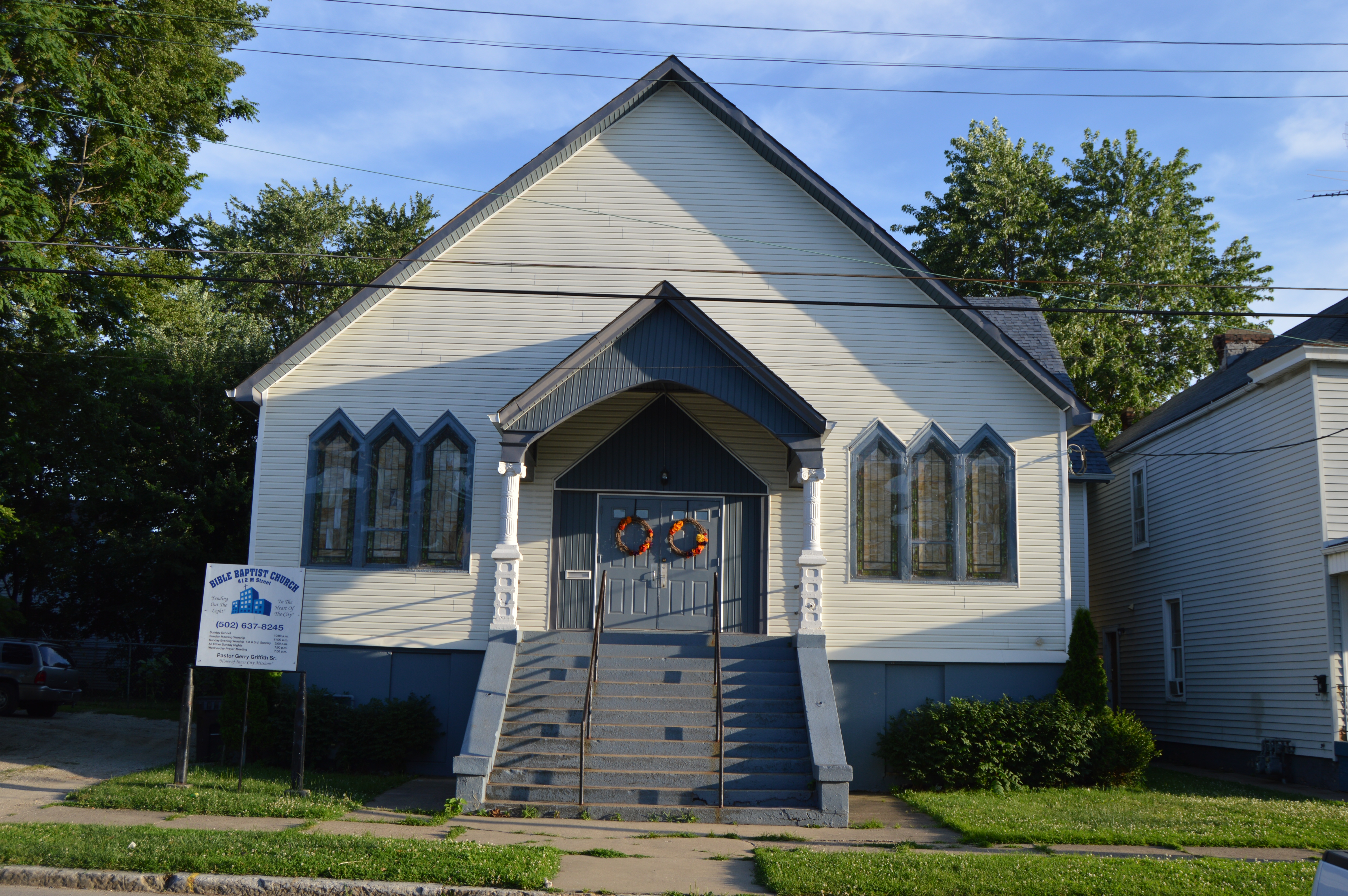 Front of the former Epworth Methodist Evangelical Church (now a Bible Baptist Church), located at 412 W. "M" Street in Louisville, Kentucky, United States. Built in 1895, it is listed on the National Register of Historic Places.